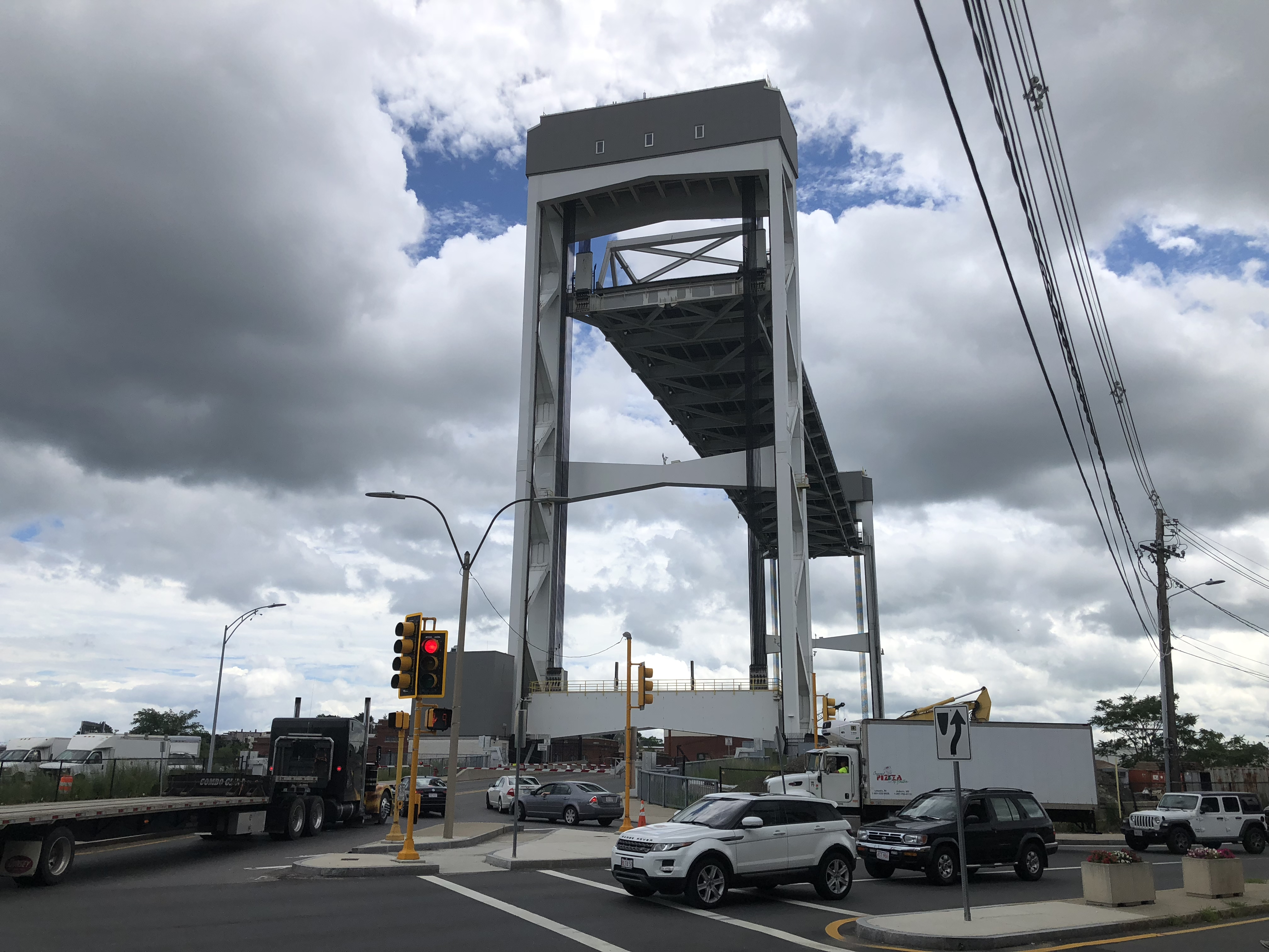 Traffic waiting for the Chelsea Street Bridge in its raised position, which allows ships to pass underneath.